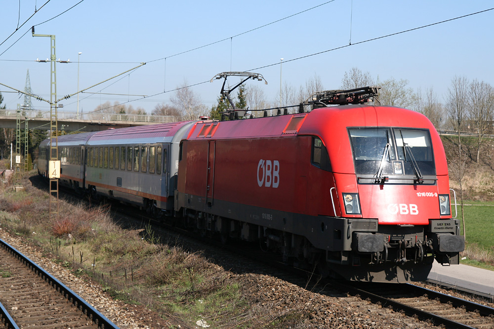 A corridor train on the Rosenheim Curve, near its junction from the railway line to Innsbruck